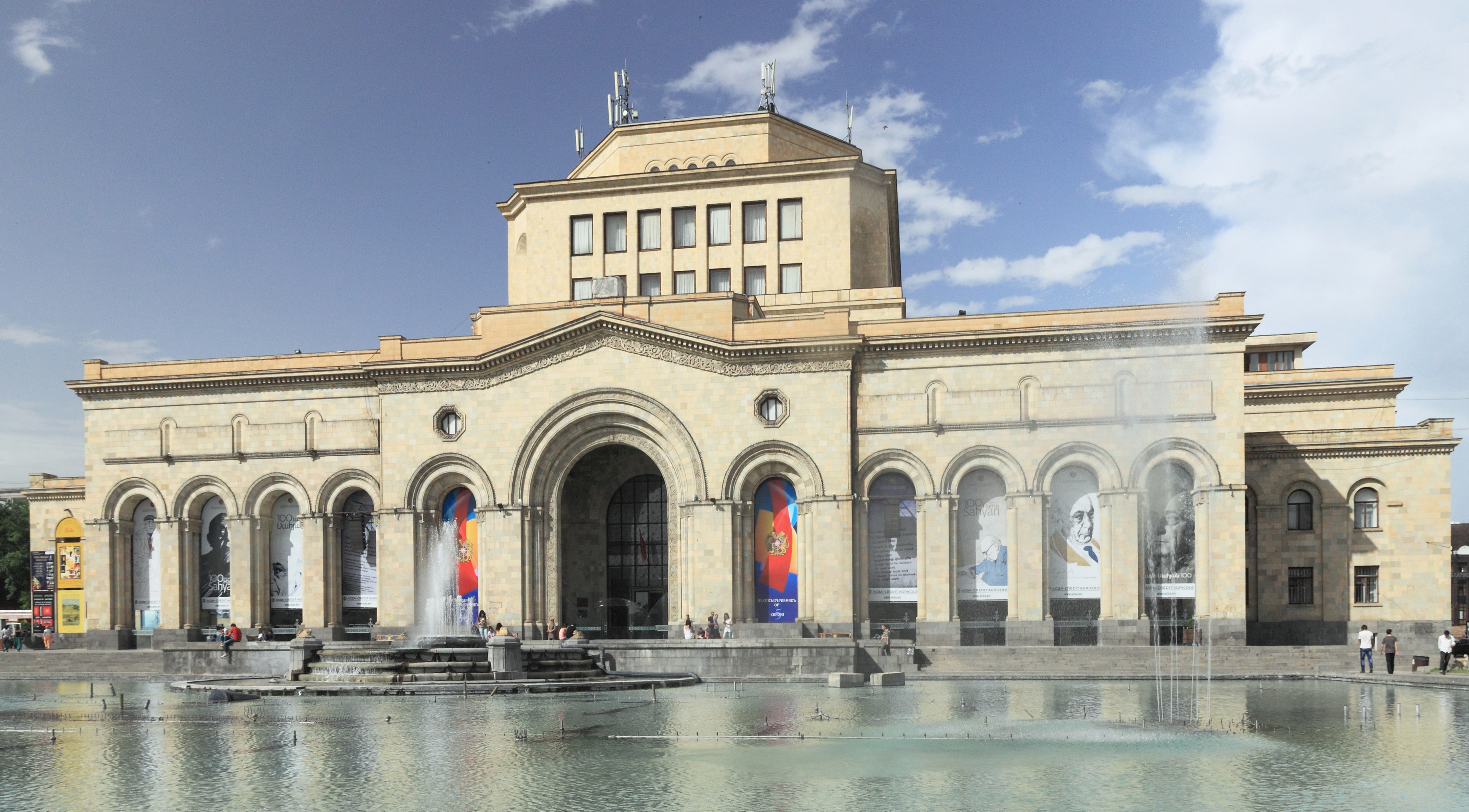 The National Gallery of Armenia and the History Museum of Armenia. Yerevan, Armenia.